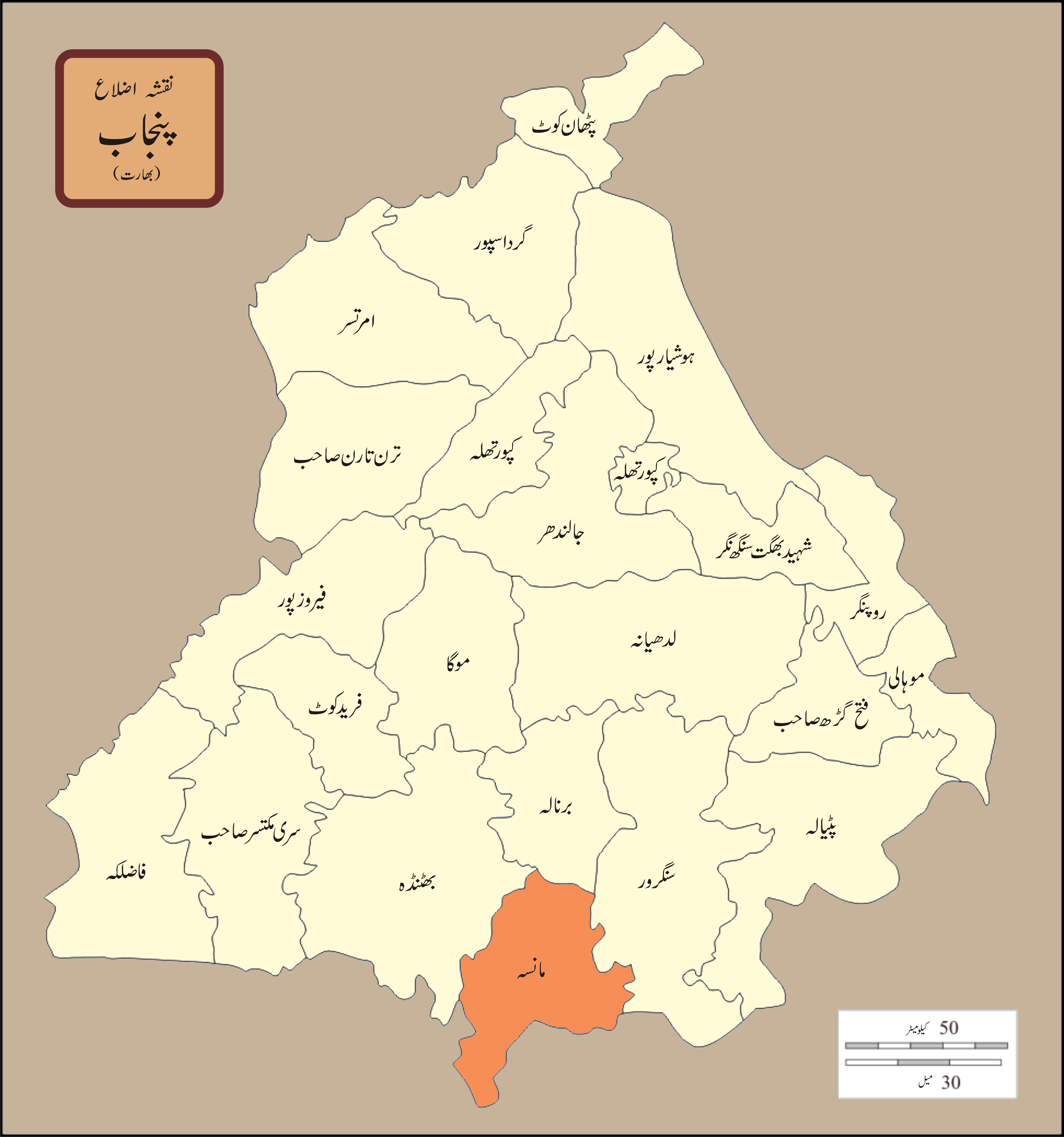 Punjab India Dist Mansa (Urdu)